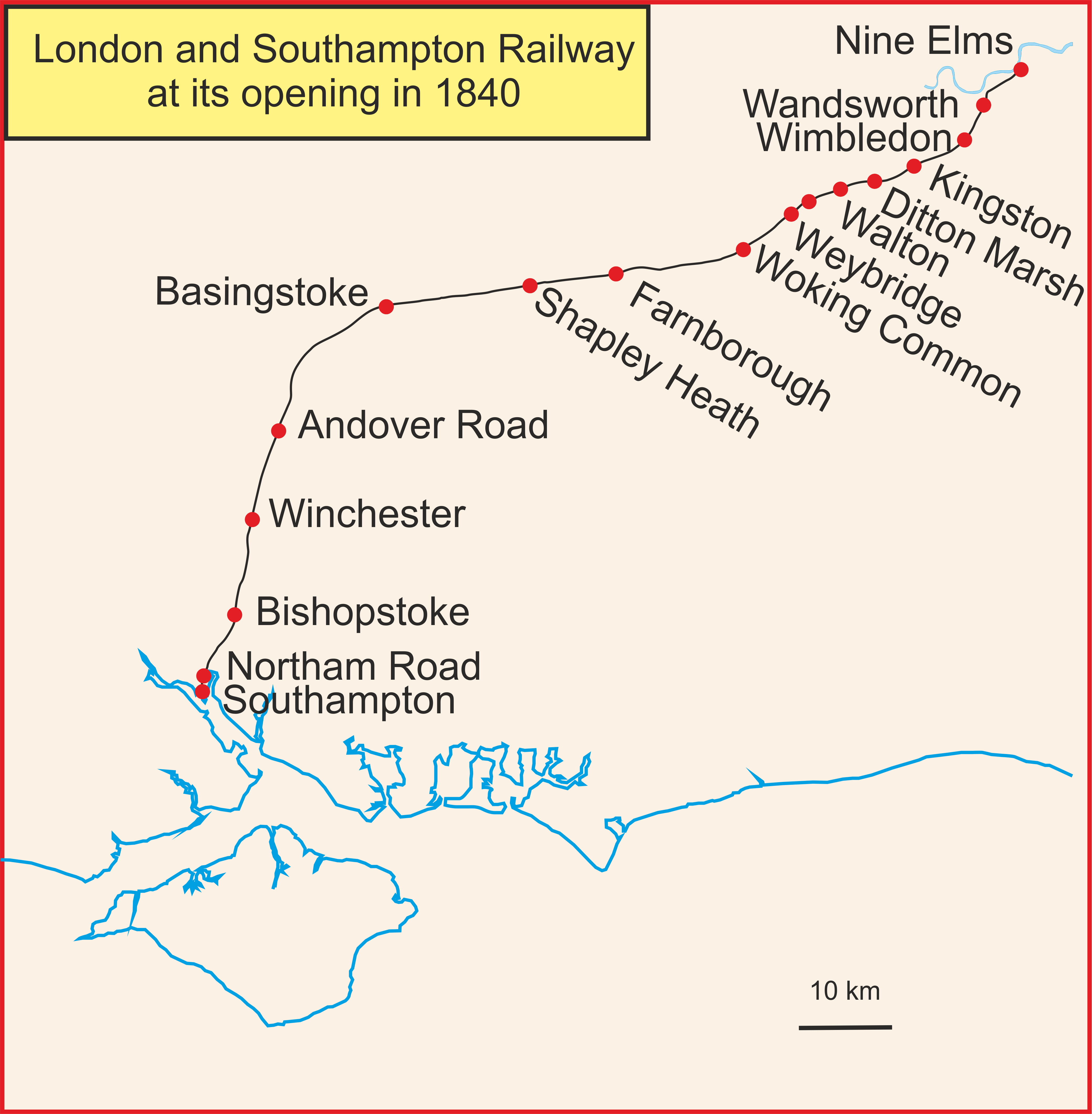 Map of LSWR system in its opening year